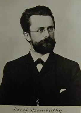 Austrian archeologist Josef Szombathy (1853–1943)